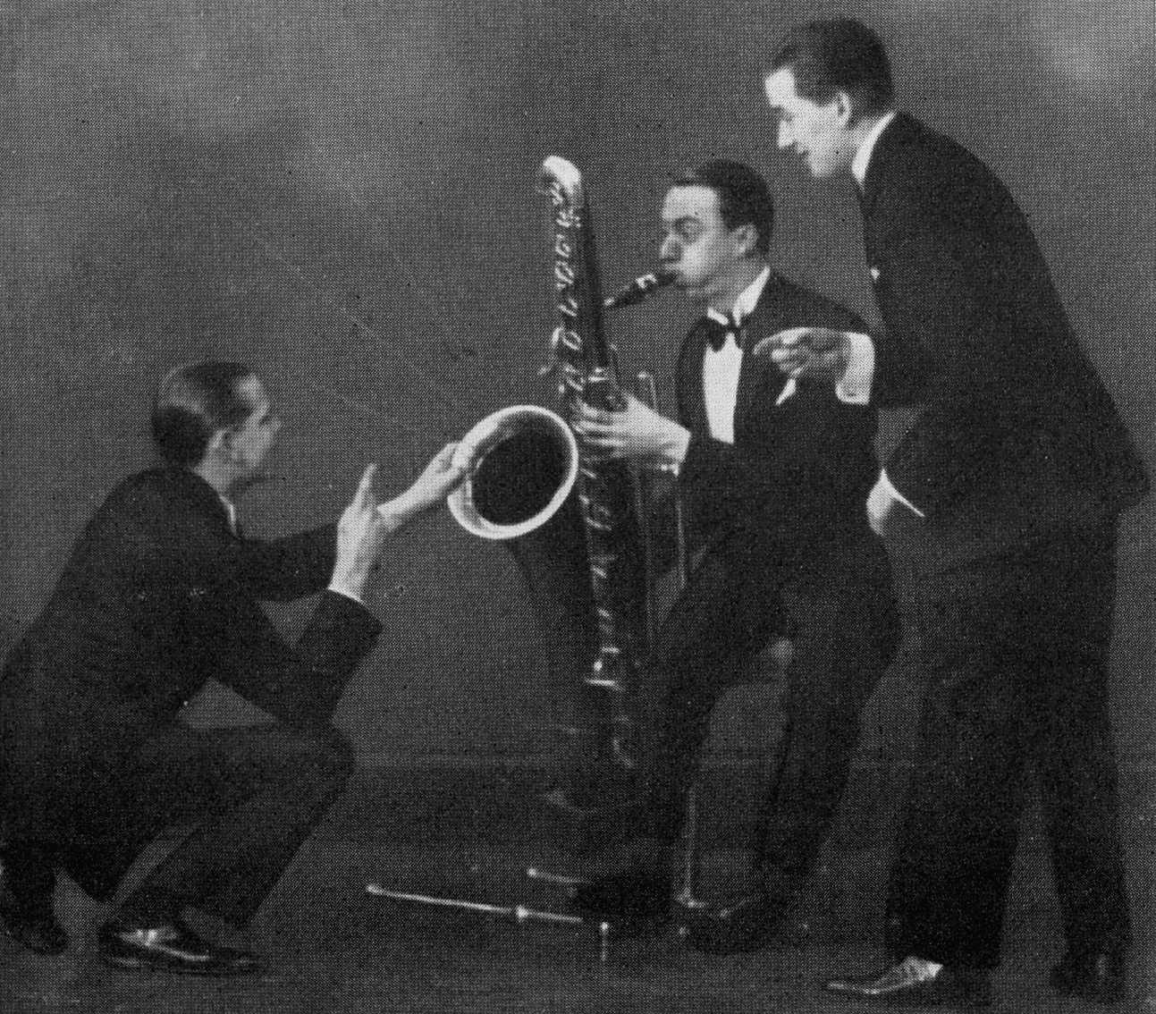 "We Three" a Danish jazz trio active around 1927. From left to right: Leo Mathisen (piano), Anker Skjoldborg (here holding a bass saxophone and later best known as a tenor sax player; according to Lington's book however, Skjoldborg mainly played drums with this group) and Otto Lington (violin).